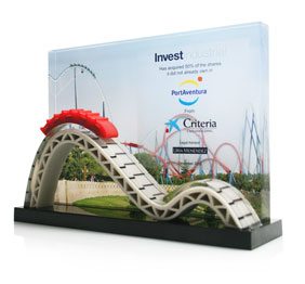 Samples of Deal Toys produced by Chance Marketing